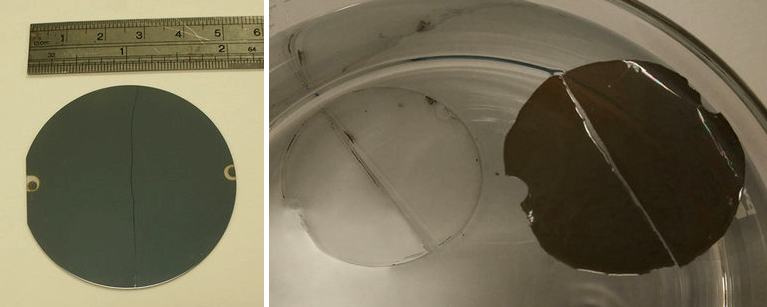 Left: The as-grown WS2 film on a 2-inch sapphire wafer; right: separated polystyrene polymer-coated WS2 film floated on water